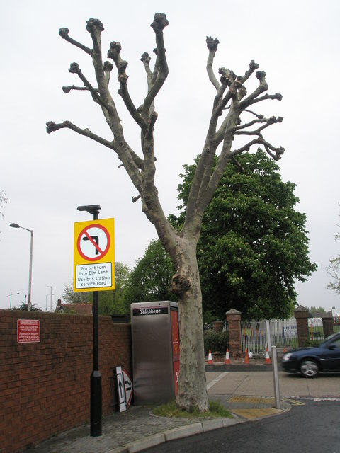 Severely pruned tree by the phone box at Havant Bus Station